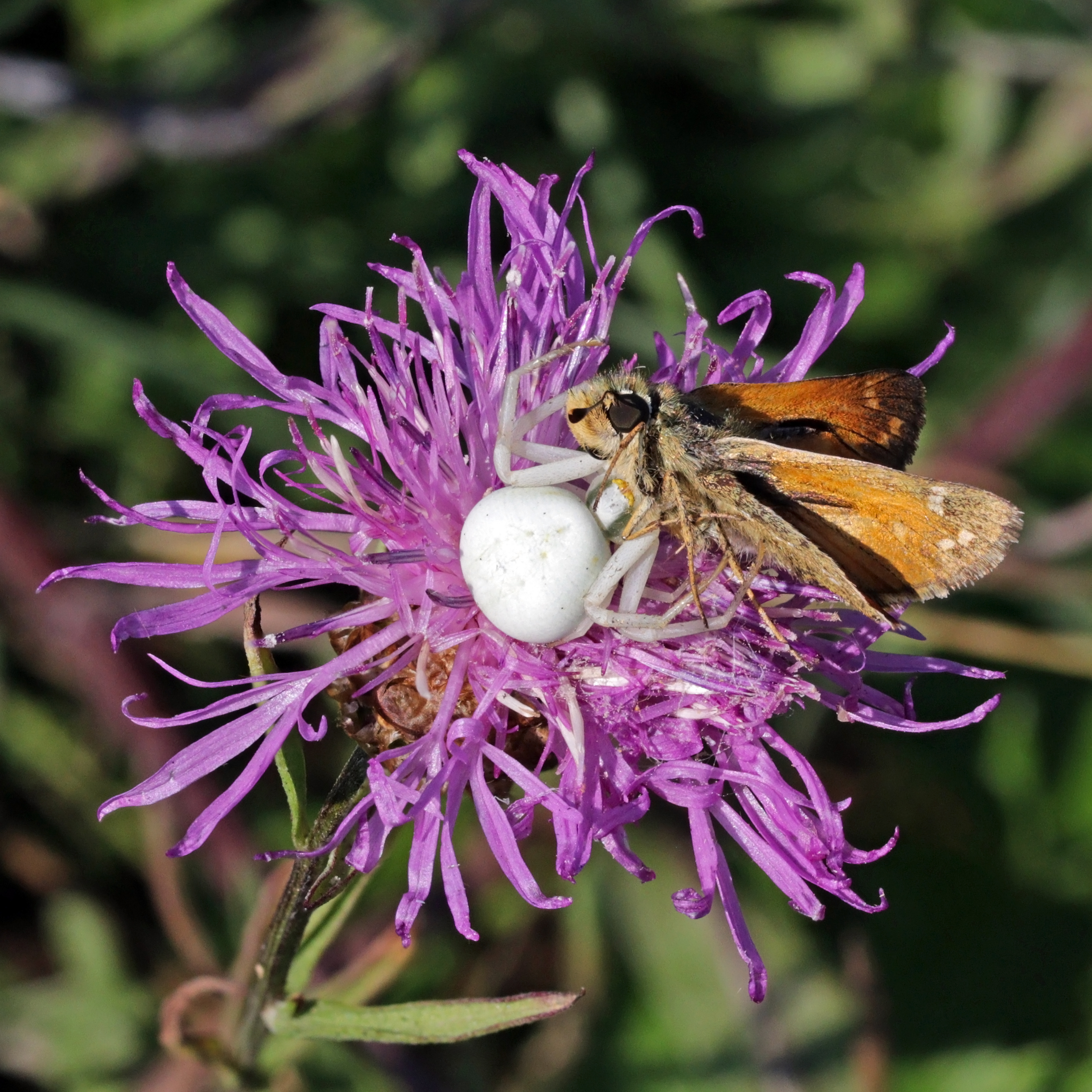 Crab spider (Misumena vatia) female with prey silver-spotted skipper (Hesperia comma) on Centaurea jacea flower, Bükk National Park, Hungary